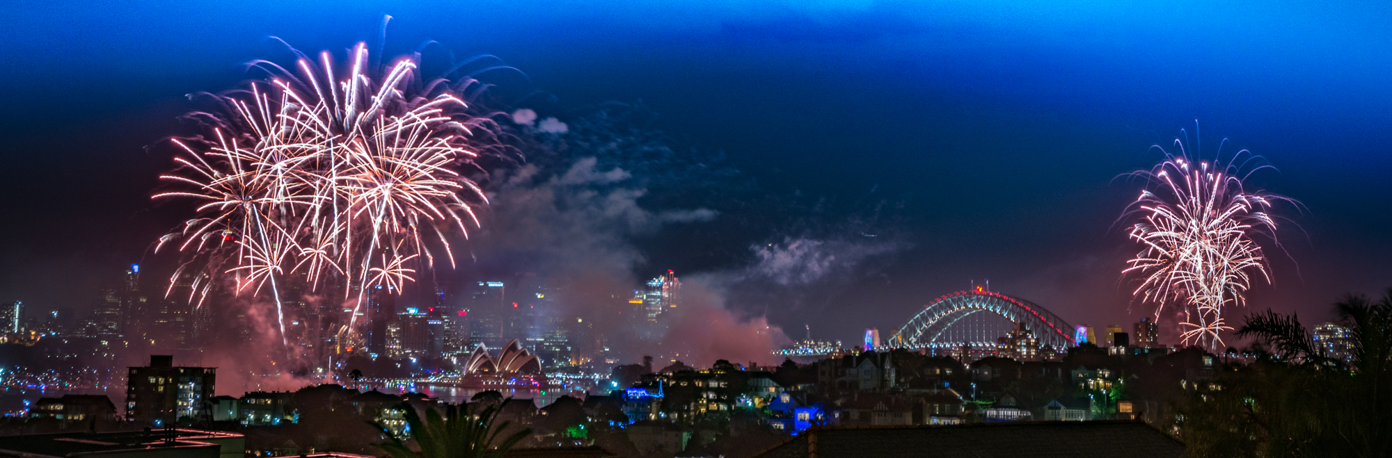 Sydney New Years Eve celebrations 2018